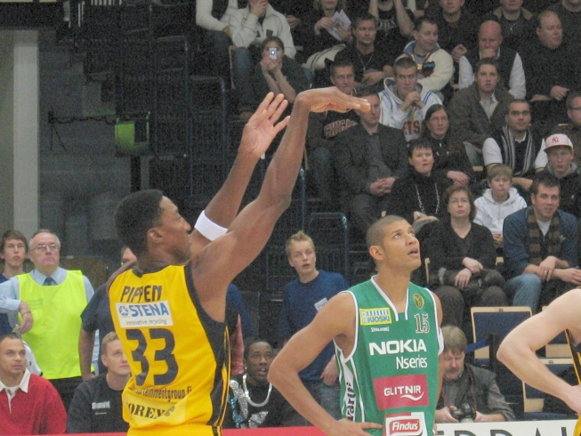 Scottie Pippen playing against Honka in January 5nd 2008